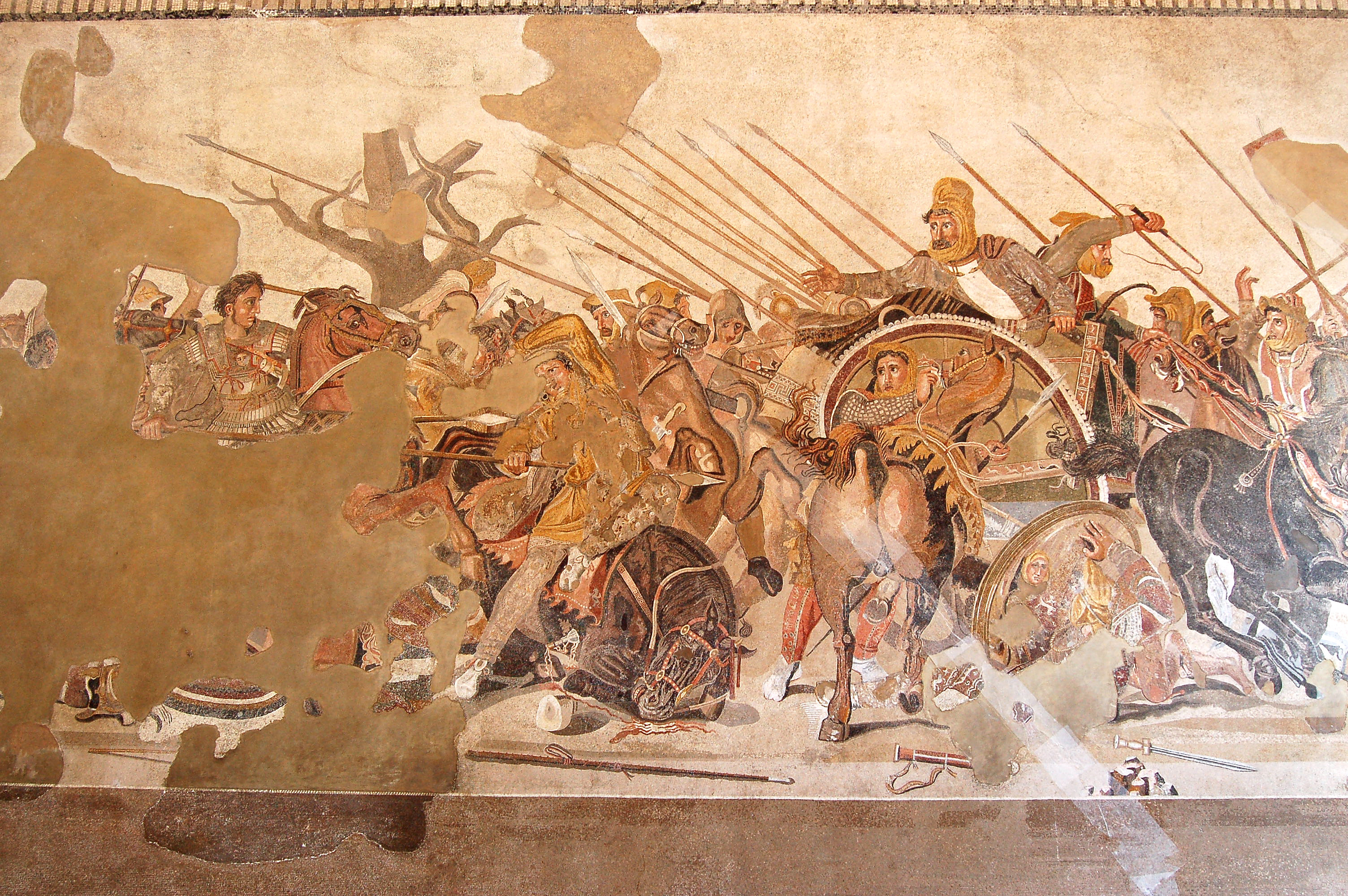 "The battle of Issos" - Alexander the Great against Dareios